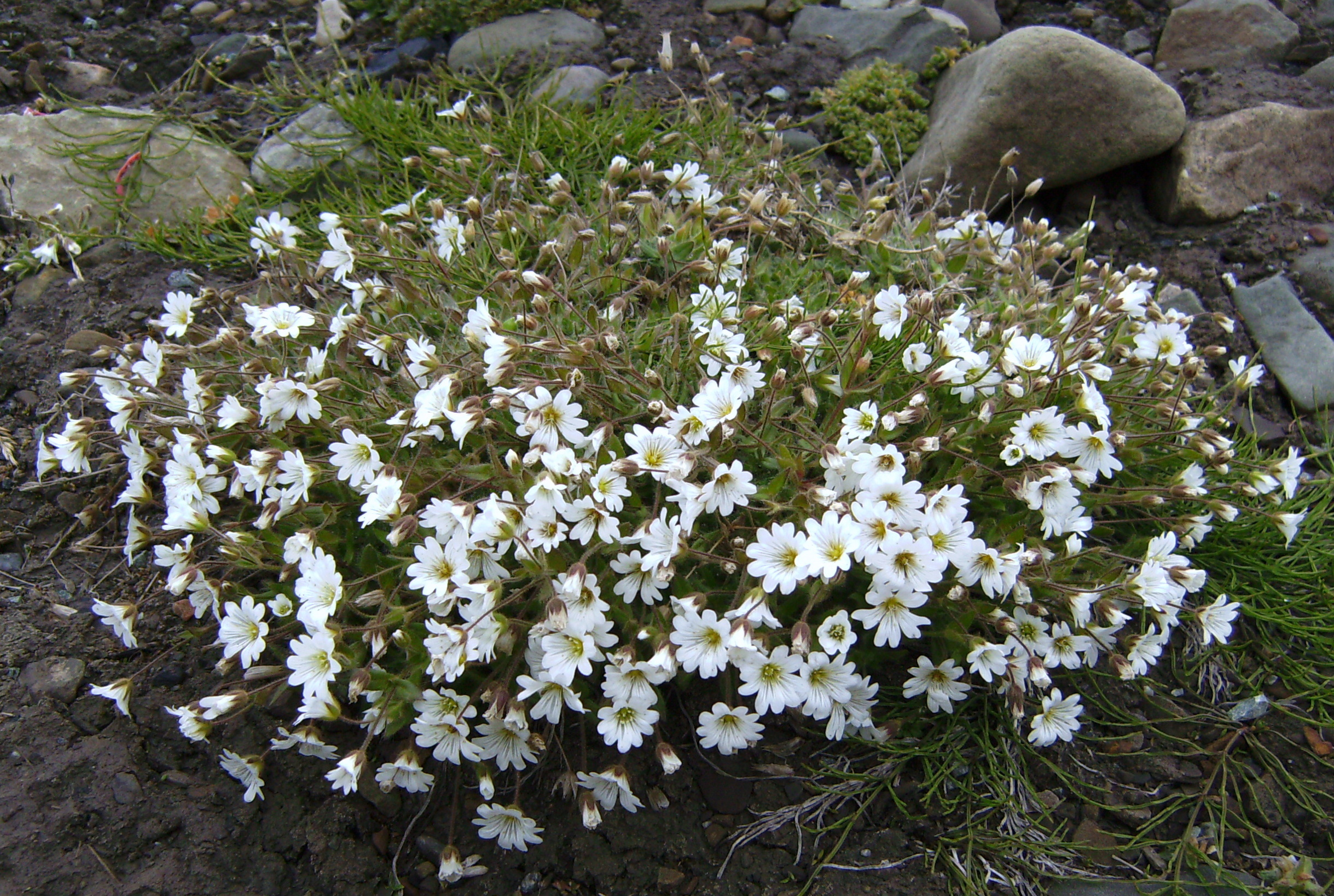 Stellaria longipes cluster at Longyearbyen, Svalbard